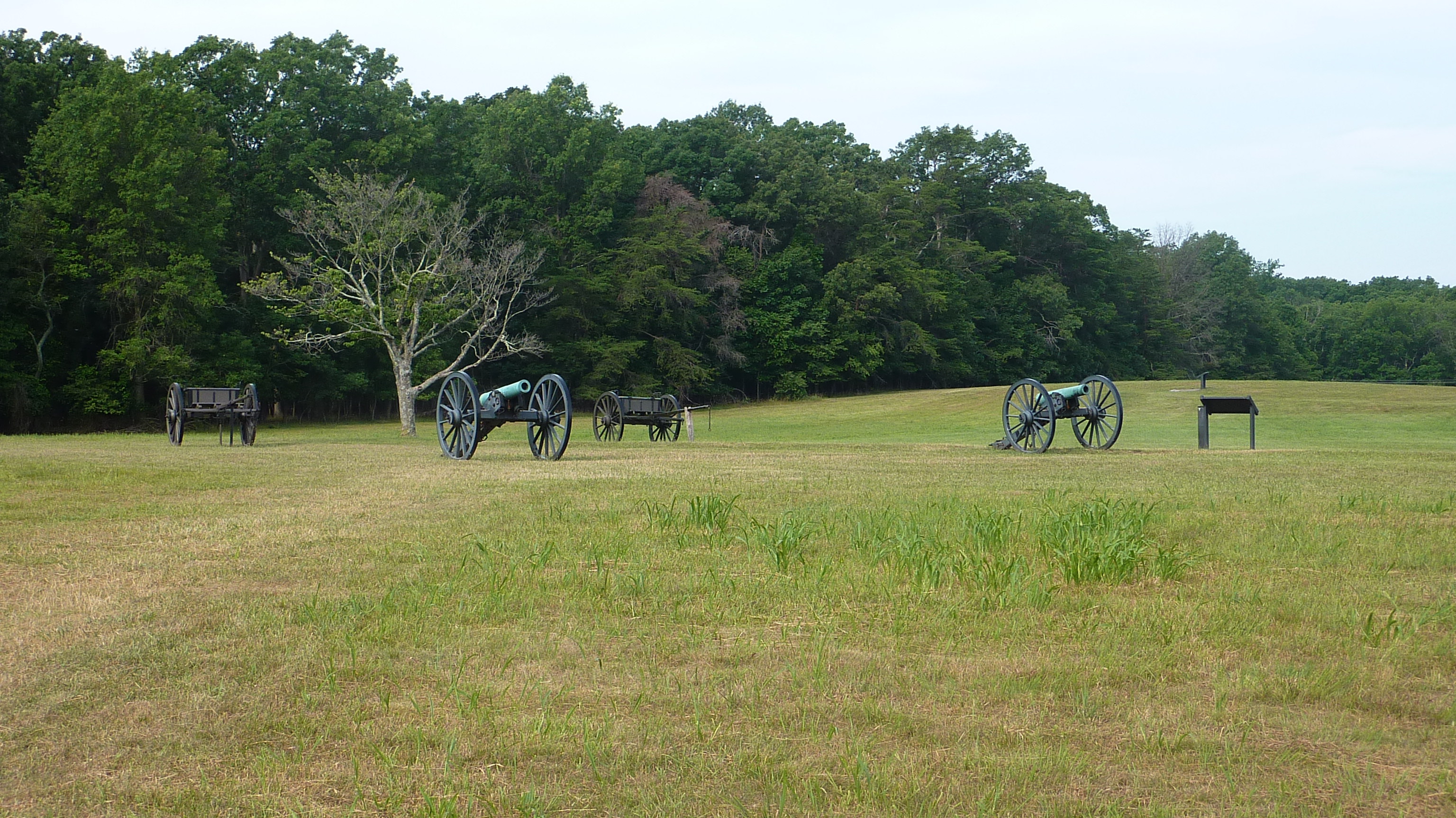 Modern placement of 2 Union Howitzers at Henry Hill, First Manassas